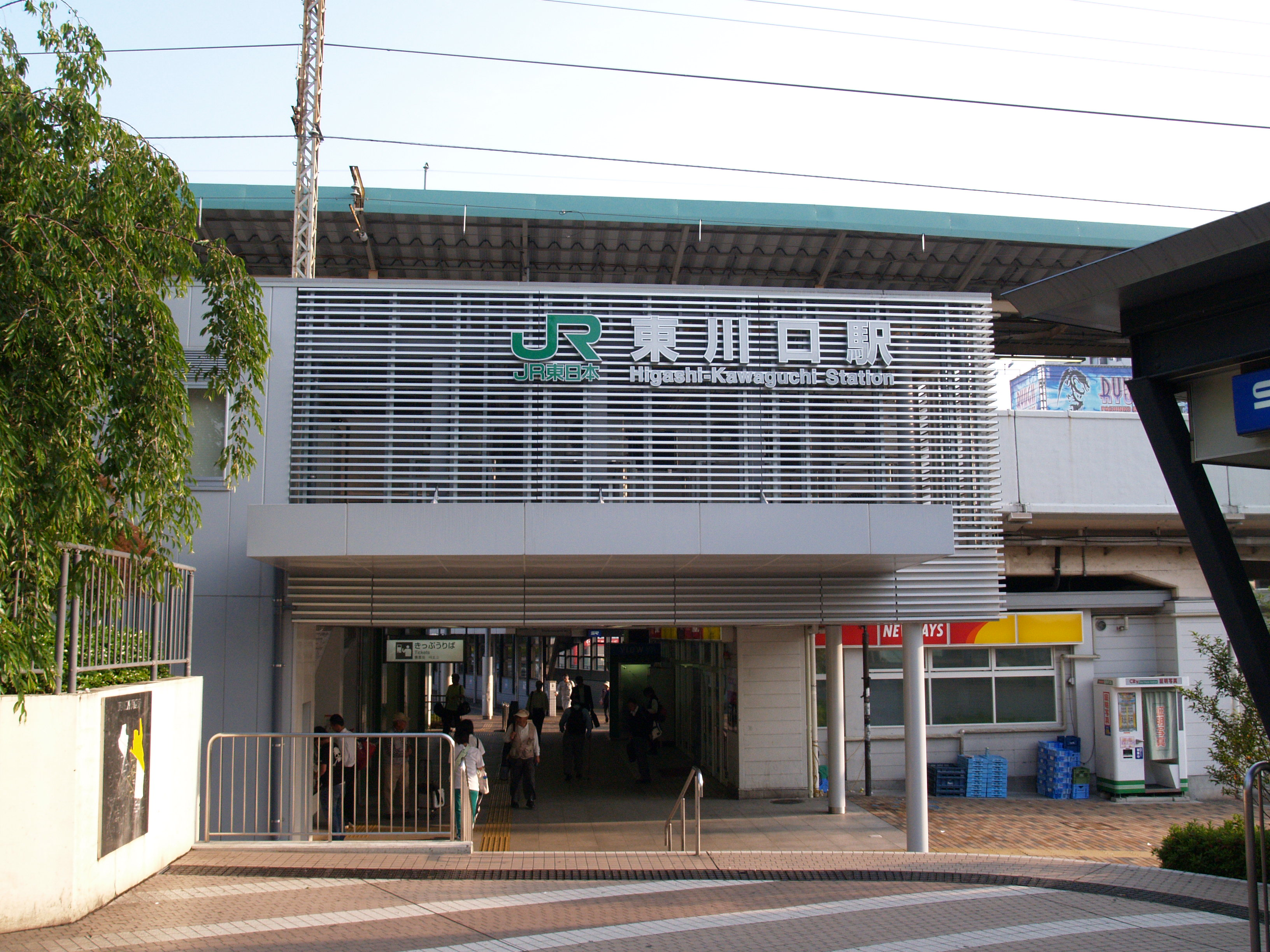 South Entrance of JR East Higashi-Kawaguchi Station